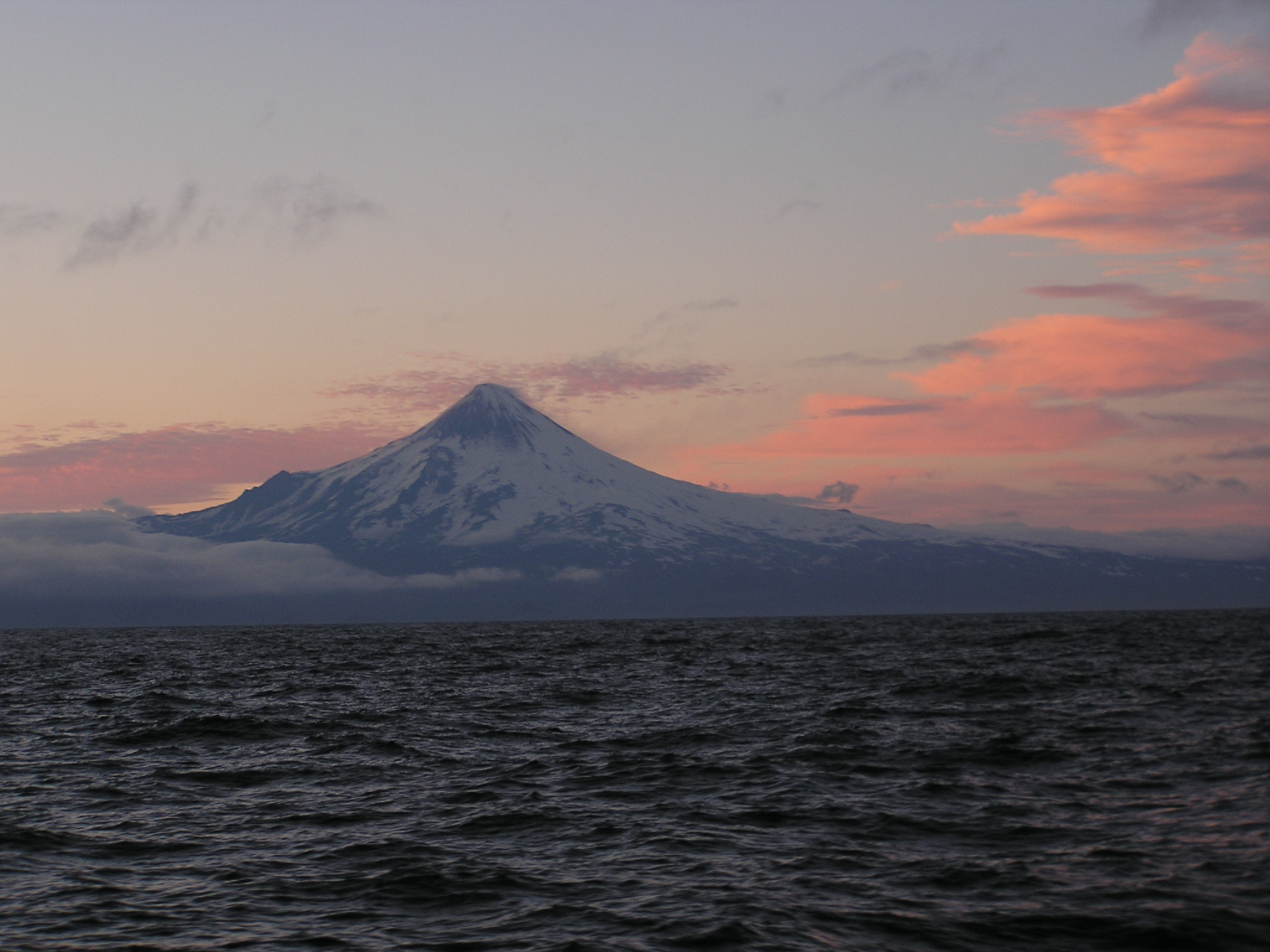 Shishaldin Volcano on the west end of Unimak Island. Image ID: line6680, NOAA's America's Coastlines Collection Location: Alaska, Shishaldin Volcano Credit: Crew and Officers of NOAA Ship FAIRWEATHER